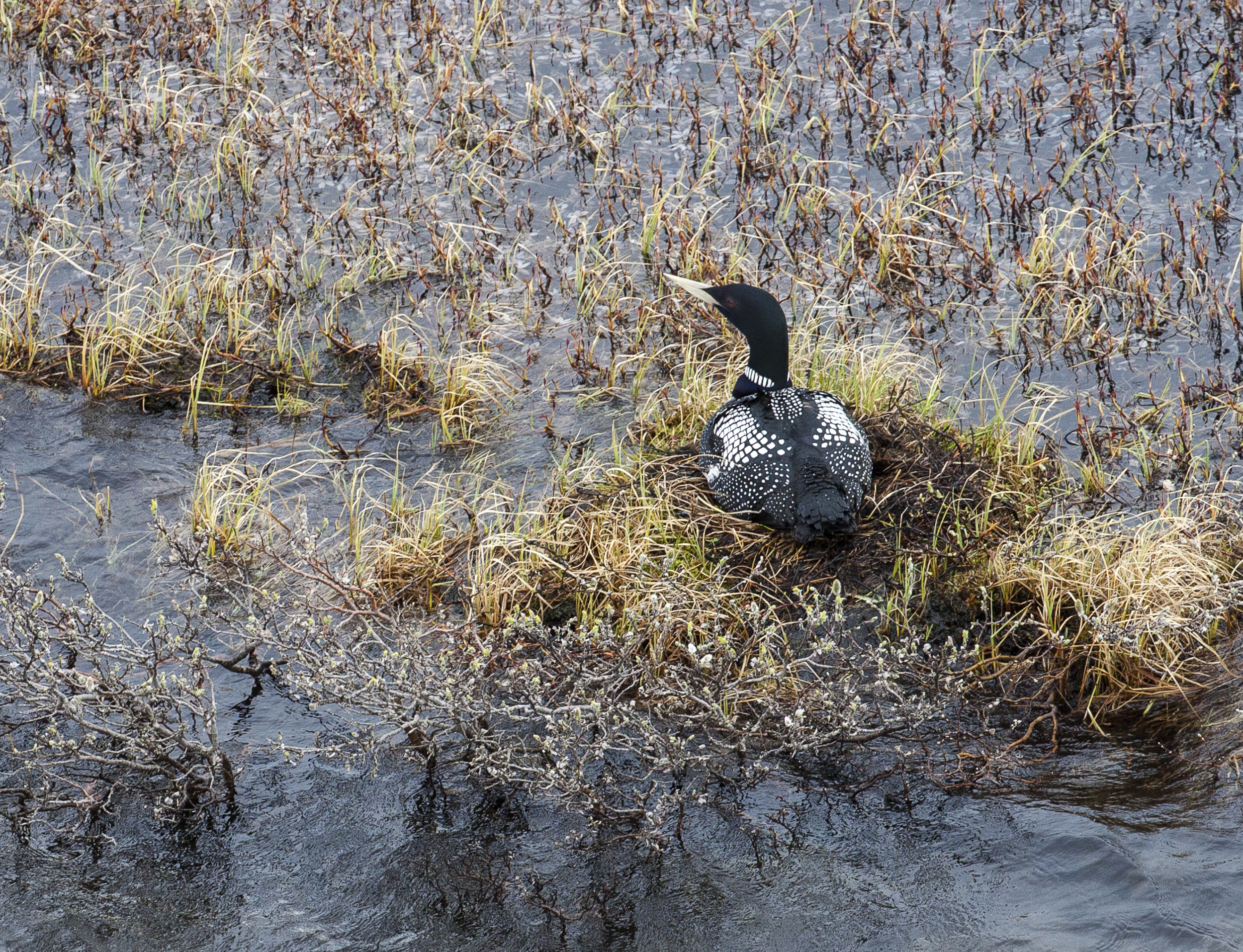 The BLM-managed National Petroleum Reserve-Alaska is unlike anything else in the world. Rich in resources, it is an incredible place of shallow wetlands, deep lakes, beaded streams, deep open lakes and tundra. The BLM is developing a Regional Mitigation Strategy to effectively mitigate impacts from energy development within the NPR-A. What resources will benefit? Brown and polar bears, walrus, small game and birds just to name a few. About 90 bird species, primarily migratory, are found annually in the NPR-A. The yellow billed loon winters in the Yellow Sea region and nests here; it’s very rare and being considered for listing under the Endangered Species Act. A few species - including rock and willow ptarmigan, common raven, gyrfalcon, and snowy owl - live in the NPR-A year round. There are also impressive herds of caribou in the NPR-A. The Teshekpuk Caribou Herd is an important subsistence resource to the residents of Atqasuk, Barrow, Nuiqsut and Wainwright in the NPR-A. The primary range of the Teshekpuk Caribou Herd is the North Slope west of the Colville River. And the Western Arctic Caribou Herd contributes to the subsistence needs of about 40 villages in northwestern Alaska. Photo: Bob Wick, BLM